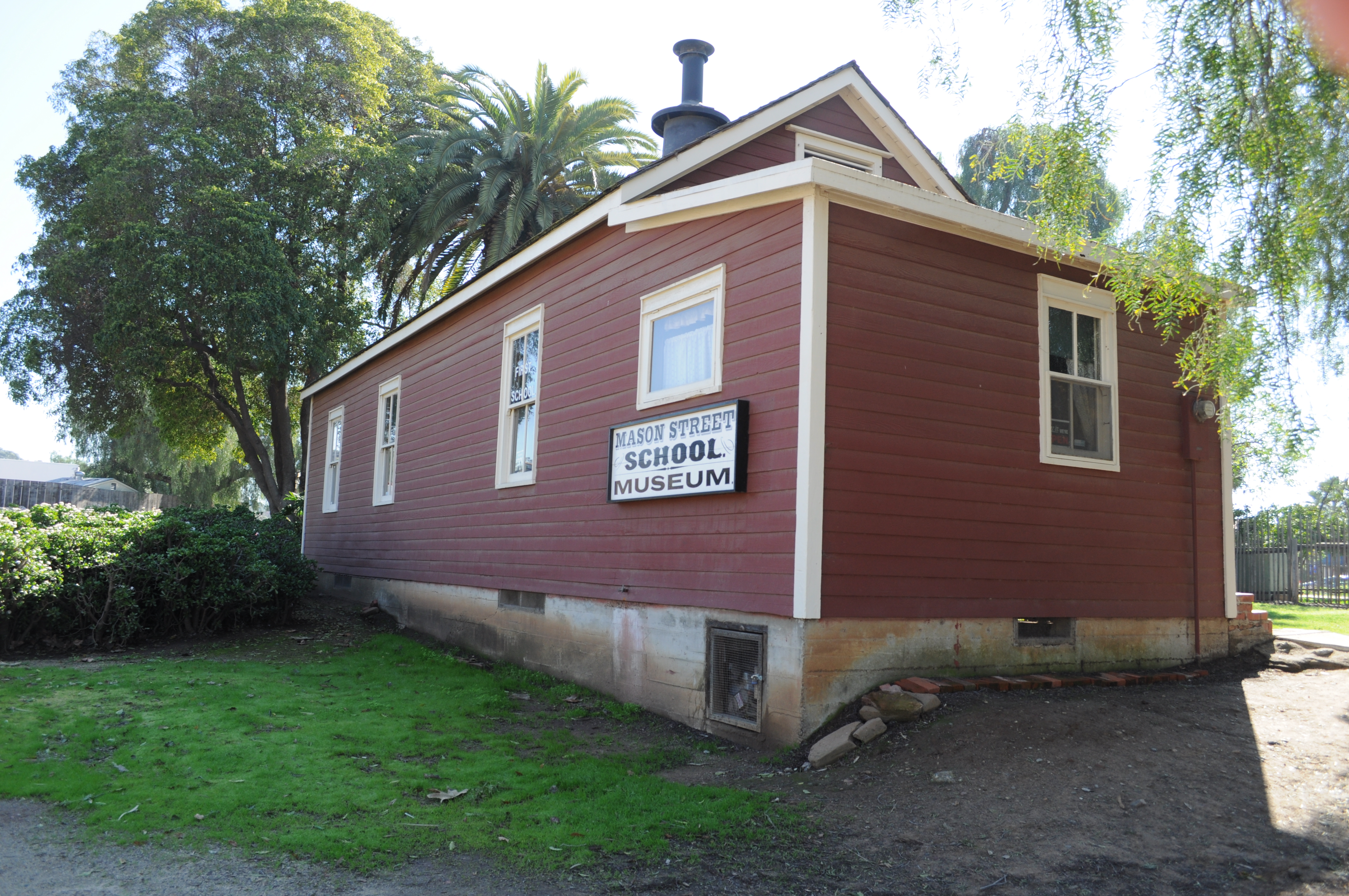 Mason Street School Museum, Old Town San Diego State Historic Park, San Diego, California, USA. First public schoolhouse in San Diego County.